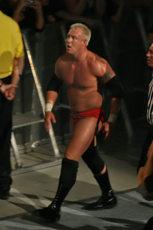 Mr. Kennedy (Ken Anderson) heads back towards the ring following the match, called back by an angry Hardcore Holly. Taken during the WWE Raw - Survivor Series Tour, at Rod Laver Arena, Melbourne Park, Melbourne, Australia. Kennedy wrestled Bob 'Hardcore' Holly; the match was won by Kennedy pinning Holly with a roll-up.